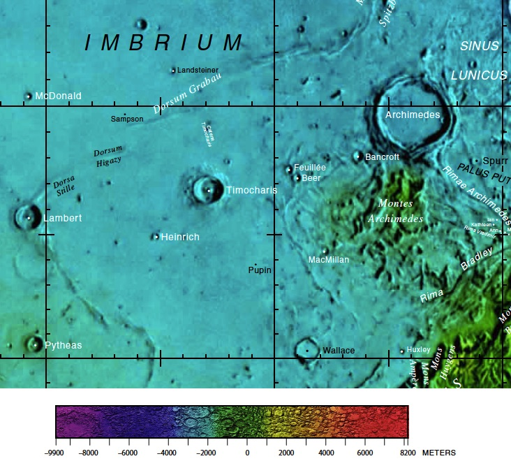 Part of the USGS near side lunar chart used for the presentation